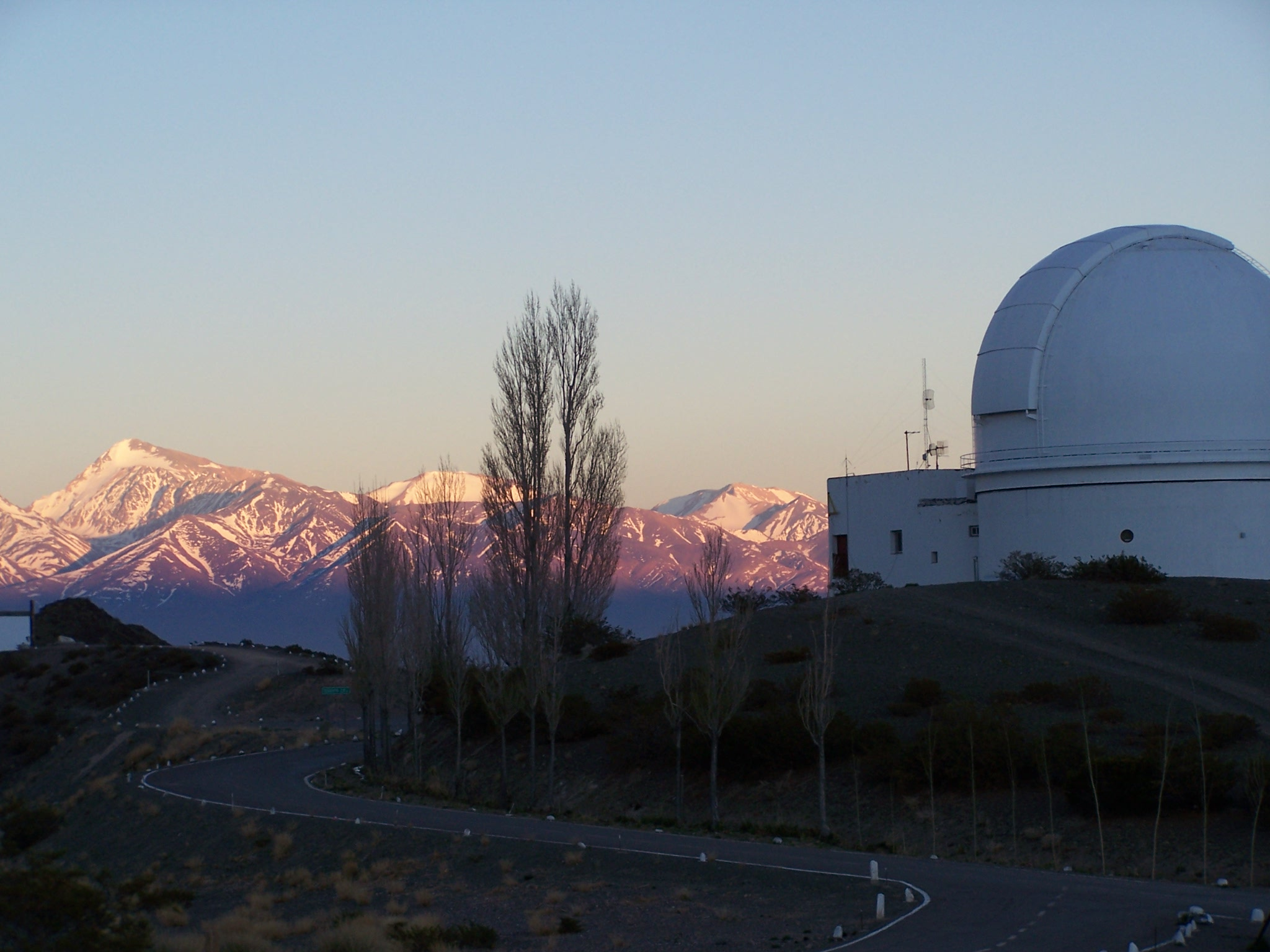 Observatorio El Leoncito en W Calingasta, provincia de San Juan, Argentina